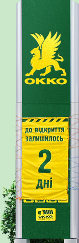 Filling complex stella in Ukraine.